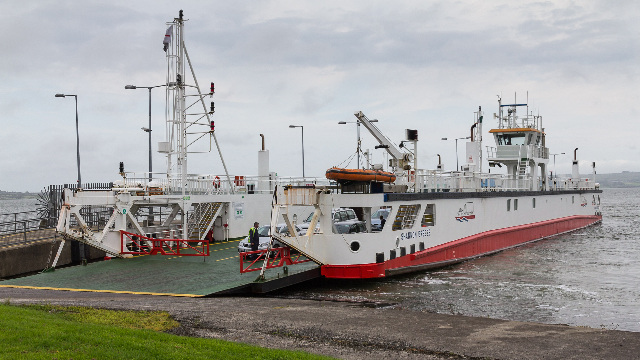 "Shannon Breeze" Ferry from Killimer to Tarbert